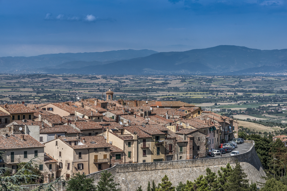 Montepulciano, Tuscany, Italy